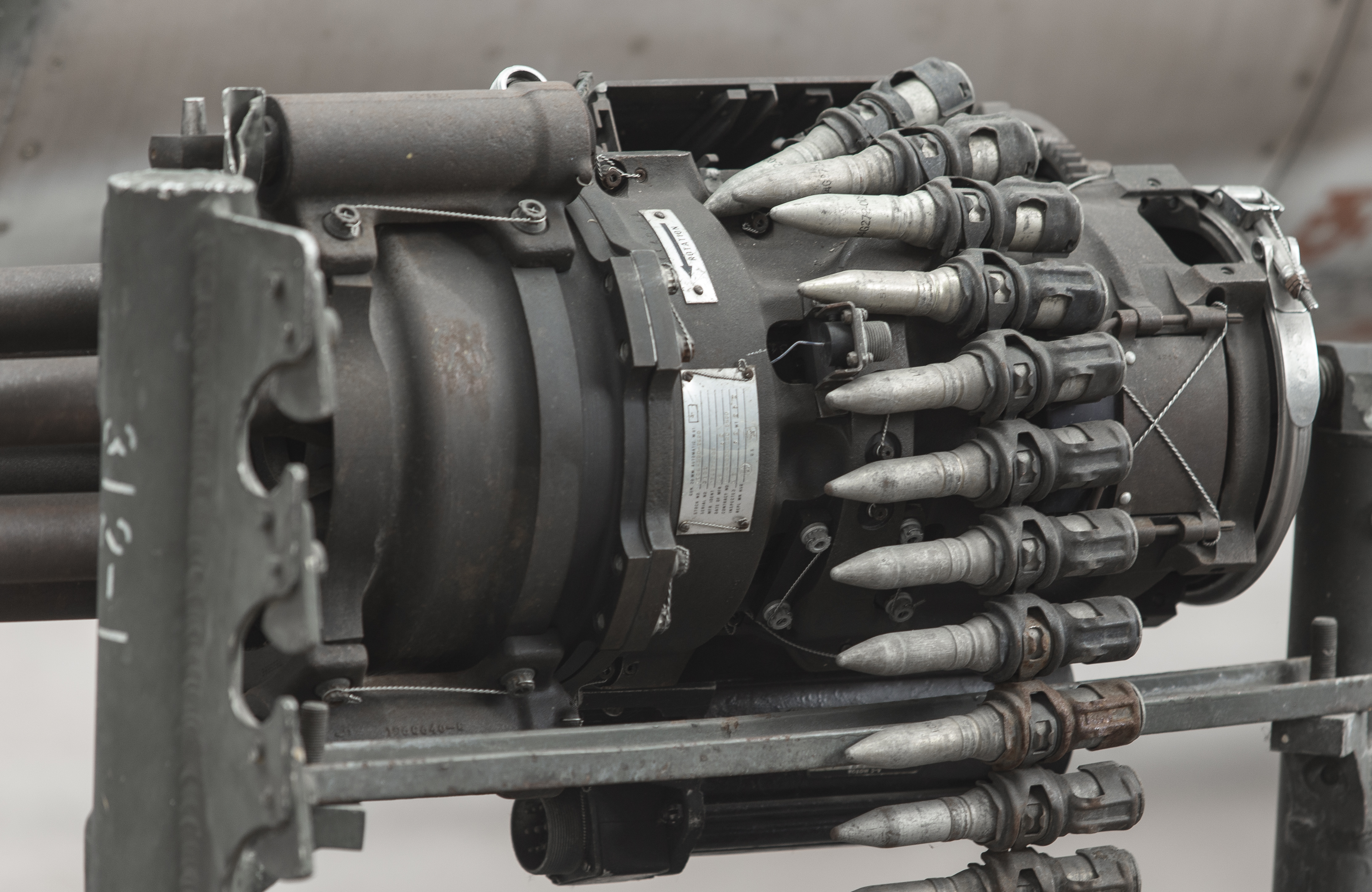 PGU-27 A/B TP 20x102mm traning round - ammunition for the M61 Vulcan